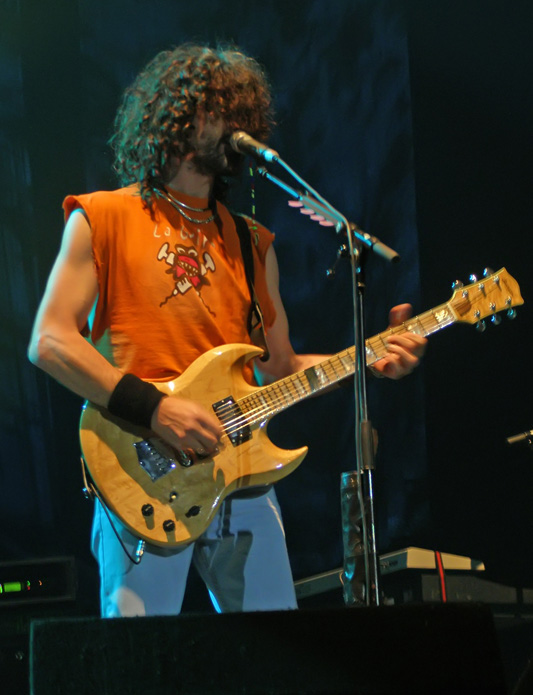 Iñaki 'Uoho' Antón, Palacio de los Deportes de la Comunidad de Madrid. 2008